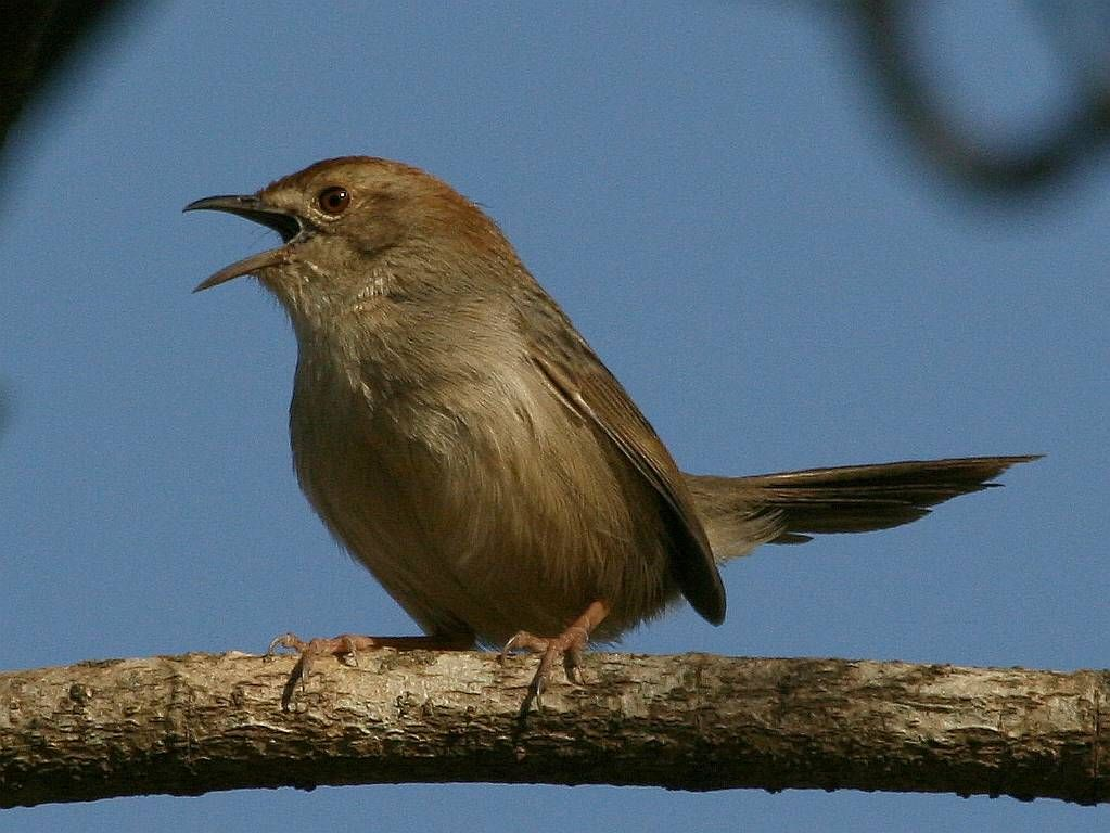 Rock-loving Cisticola (Cisticola aberrans minor). Many authorities now split Lazy Cisticola Cisticola aberrans (South Africa to southern Tanzania) from Rock-loving Cisticola Cisticola emini (West Africa to northern Tanzania). Location: Pietermaritzburg, South Africa.